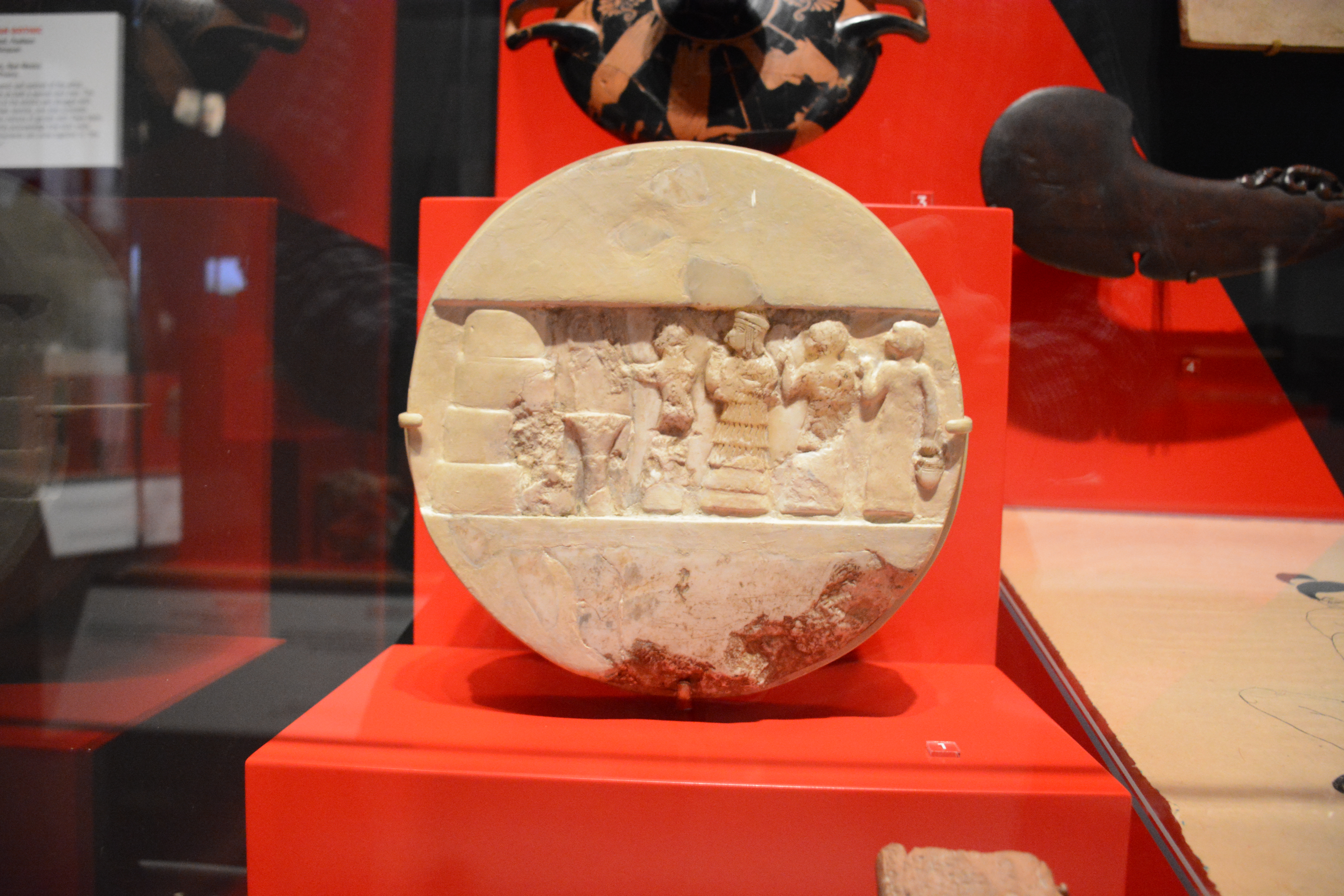 The "Disk of Enheduanna" at the Penn Museum (University of Pennsylvania Museum of Archaeology and Anthropology) in Philadelphia.